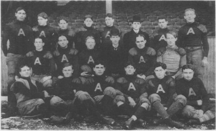 The Philadelphia Athletics were a profession football team comprised of members of the AL's Athletics and football players from various local teams. The team played in the 1902 NFL which was the first attempt to establish a professional national football league.